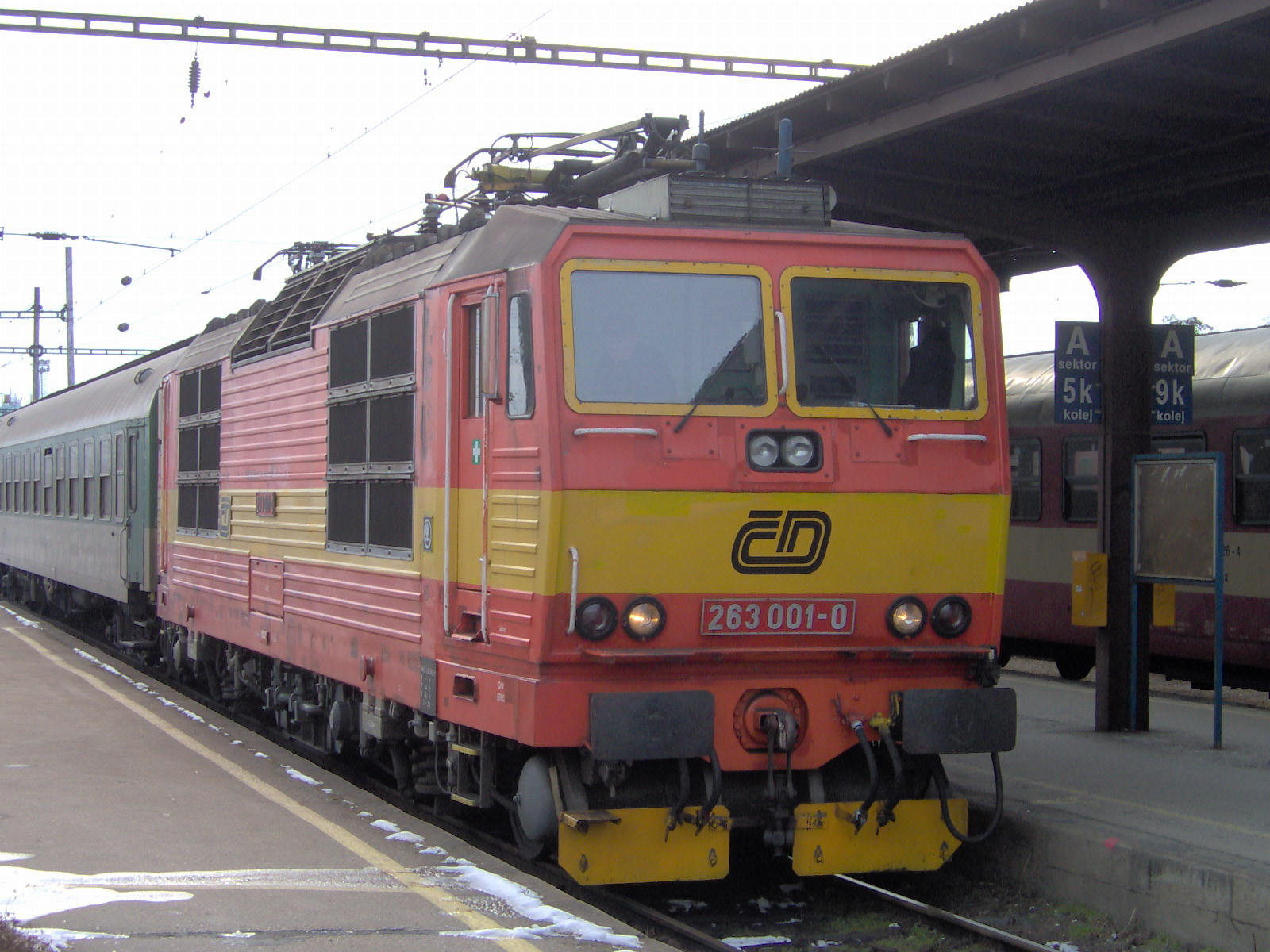 Electric locomotive 263.001, Brno main station, Czech Republic